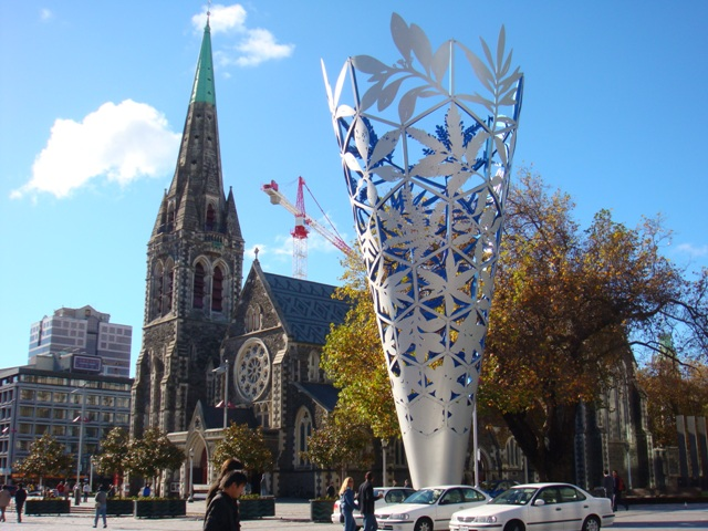 Christchruch Cathedral